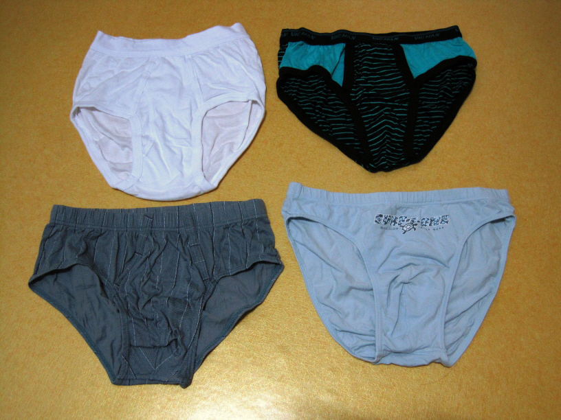 Korean-style Men's briefs